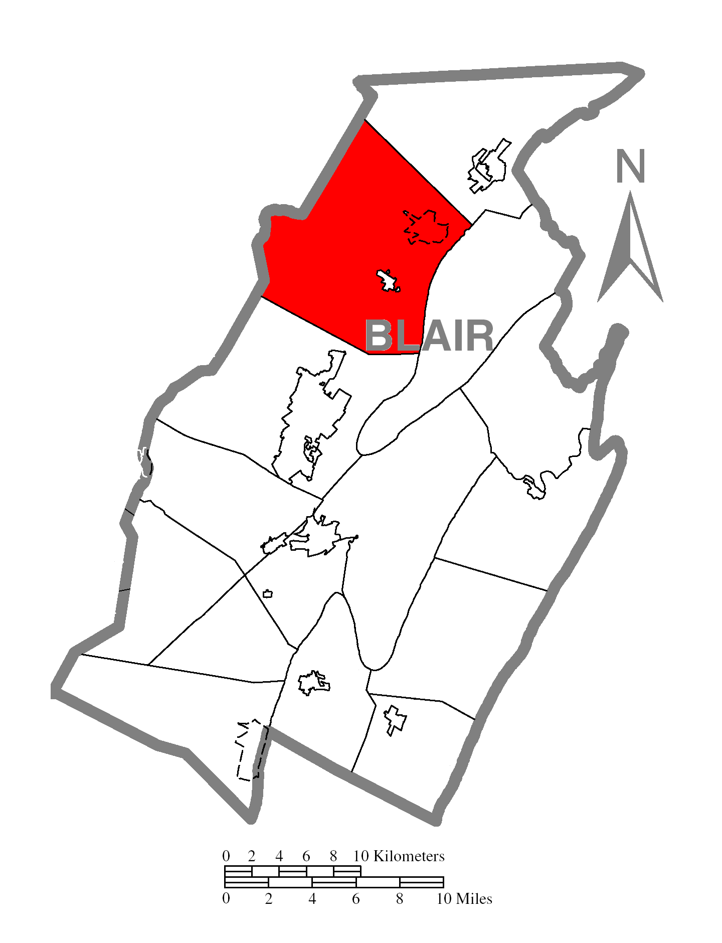 A map of Blair County showing Antis Township, Pennsylvania (alternate) highlighted on the map.